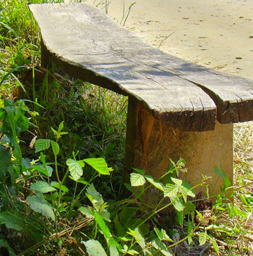 אביעקט